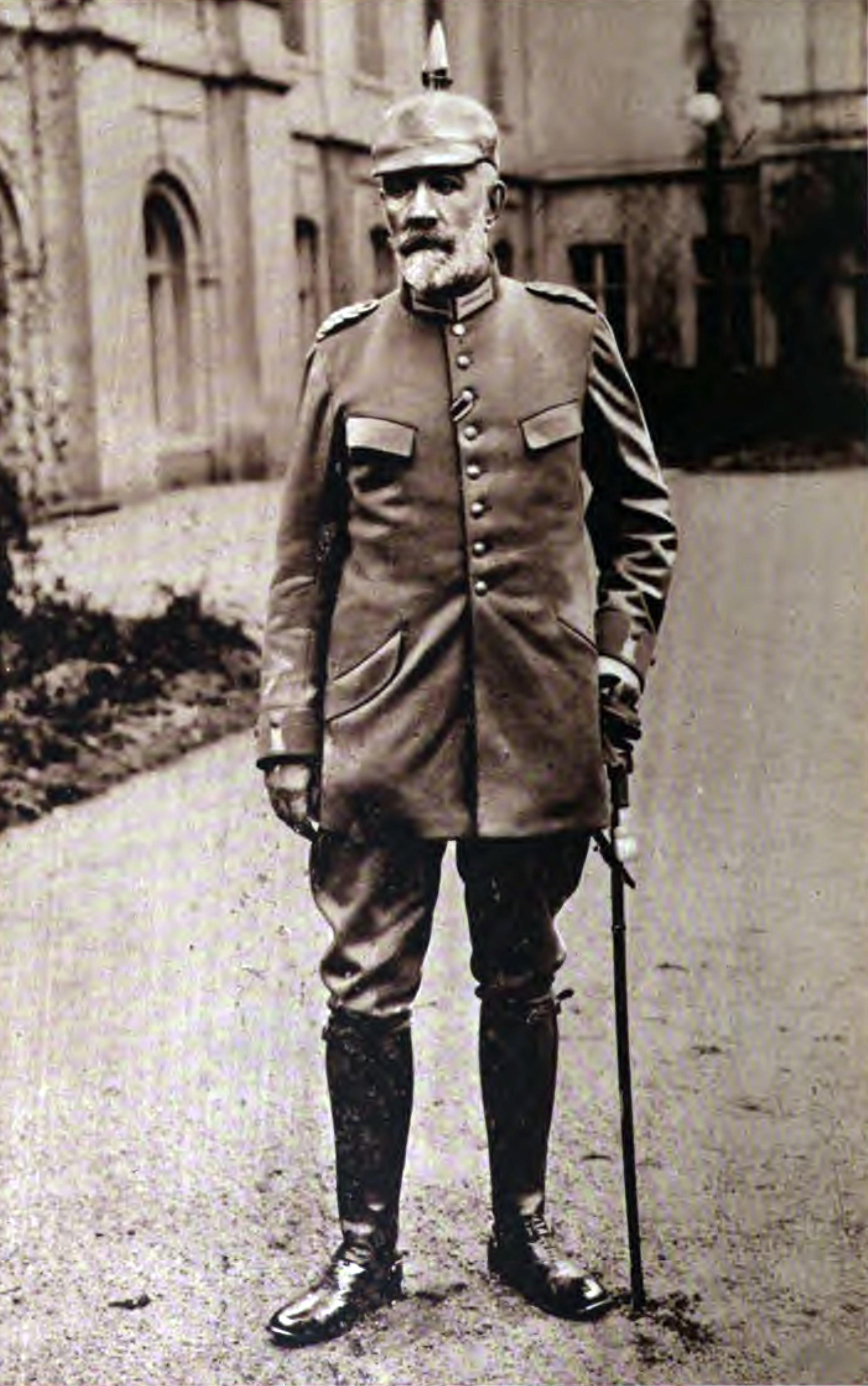 Dr. von Bethmann-Hollweg, the German Chancellor. In His Field Uniform, Showing the Helmet in Its New Weatherproof Cover. From The New York Times Current History of the European War.